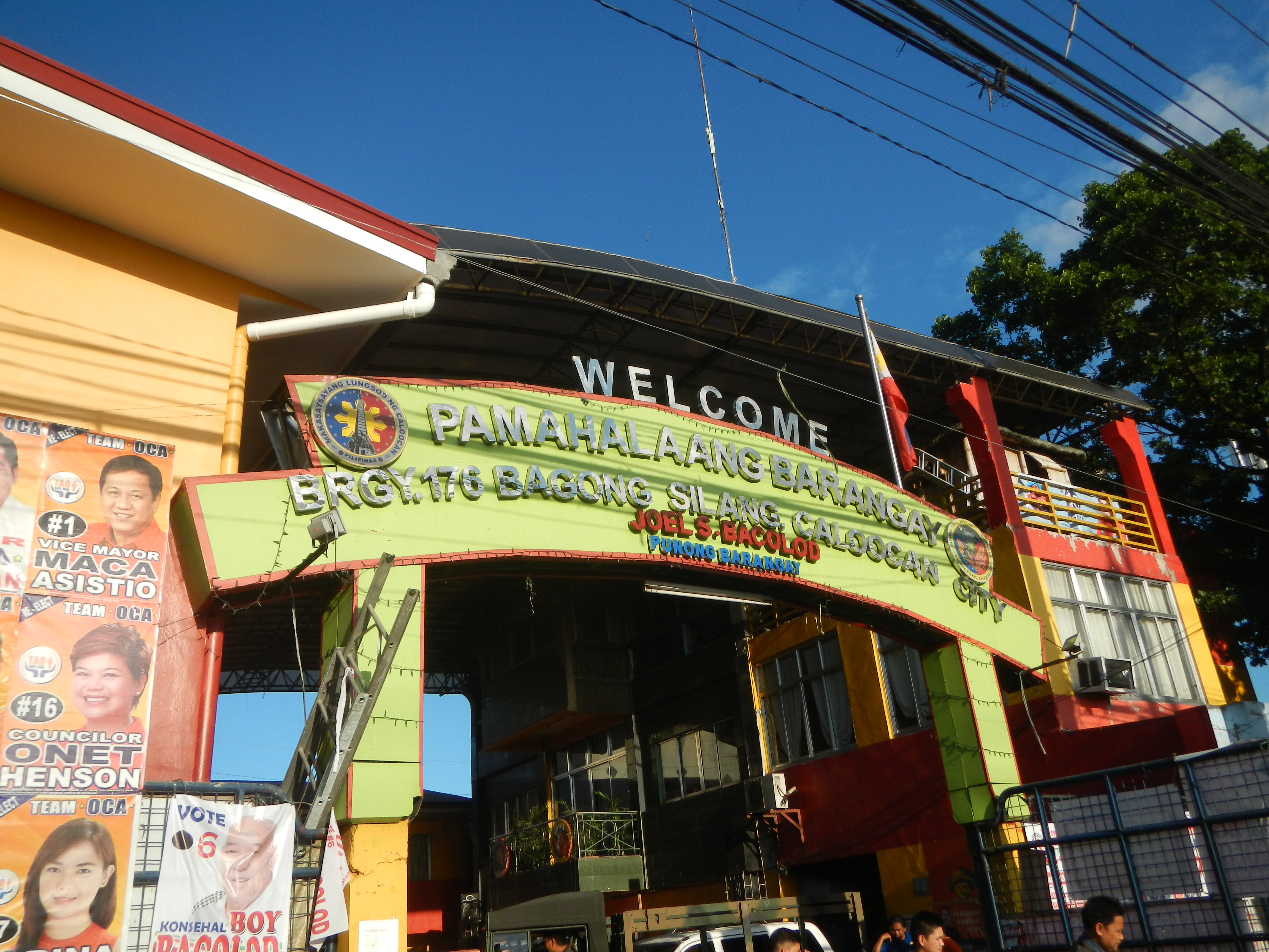 Roman Catholic Diocese of Novaliches Vicariate of Sto. Niño, Santo Niño Parish Church (Phase 1, Bagong Silang, Caloocan) Caloocan District I (North Caloocan), in Barangays of Caloocan, Zone 15, Bagong Silang, Caloocan City or Barangay 176 (Phase 1 to Phase 12) has the greatest population, the largest land area in the Philippines 524.68 hectares divided into phases, bounded by Barangay 175 lies south and Barangay 186 in the east the largest barangay in the Philippines.